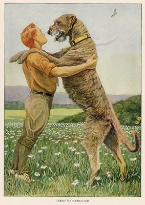 Irish Wolfshound, Print, ca. 1920's